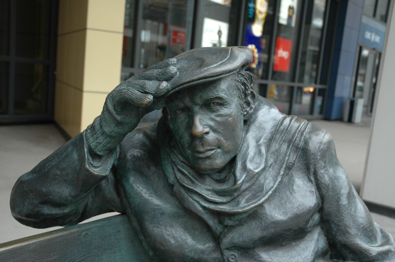 Bench statue of Glenn Gould in front of CBC building, Toronto